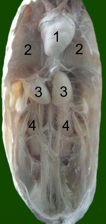 Situs_of_a_male_chicken.jpg without gastroinestinal tract. 1. Heart 2. Lungs 3. Testicles 4. Kidneys